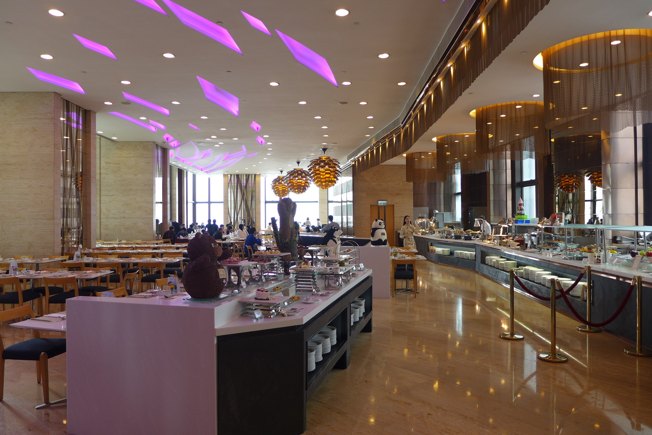 Harbour Grand Cafe, Harbour Grand Hong Kong